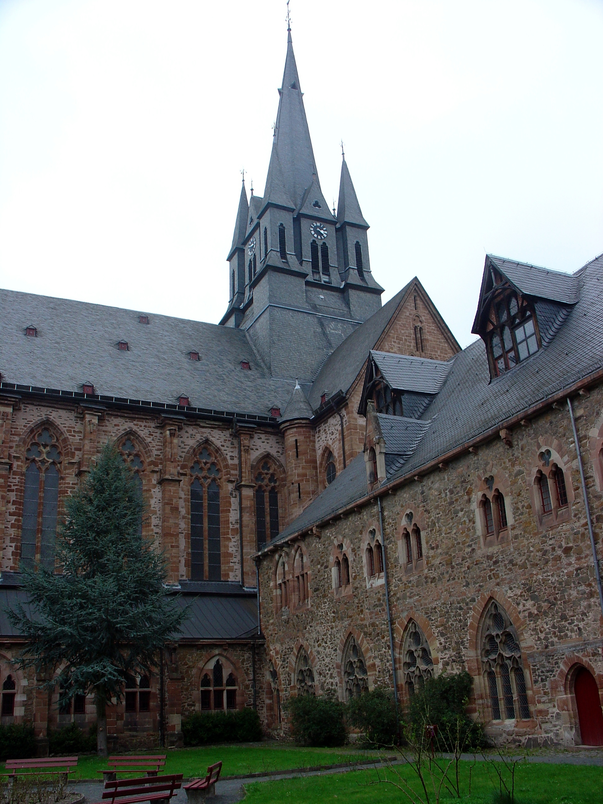 Haina, Germany: former Cistercian monastery. Church from south.